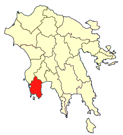 pylia province